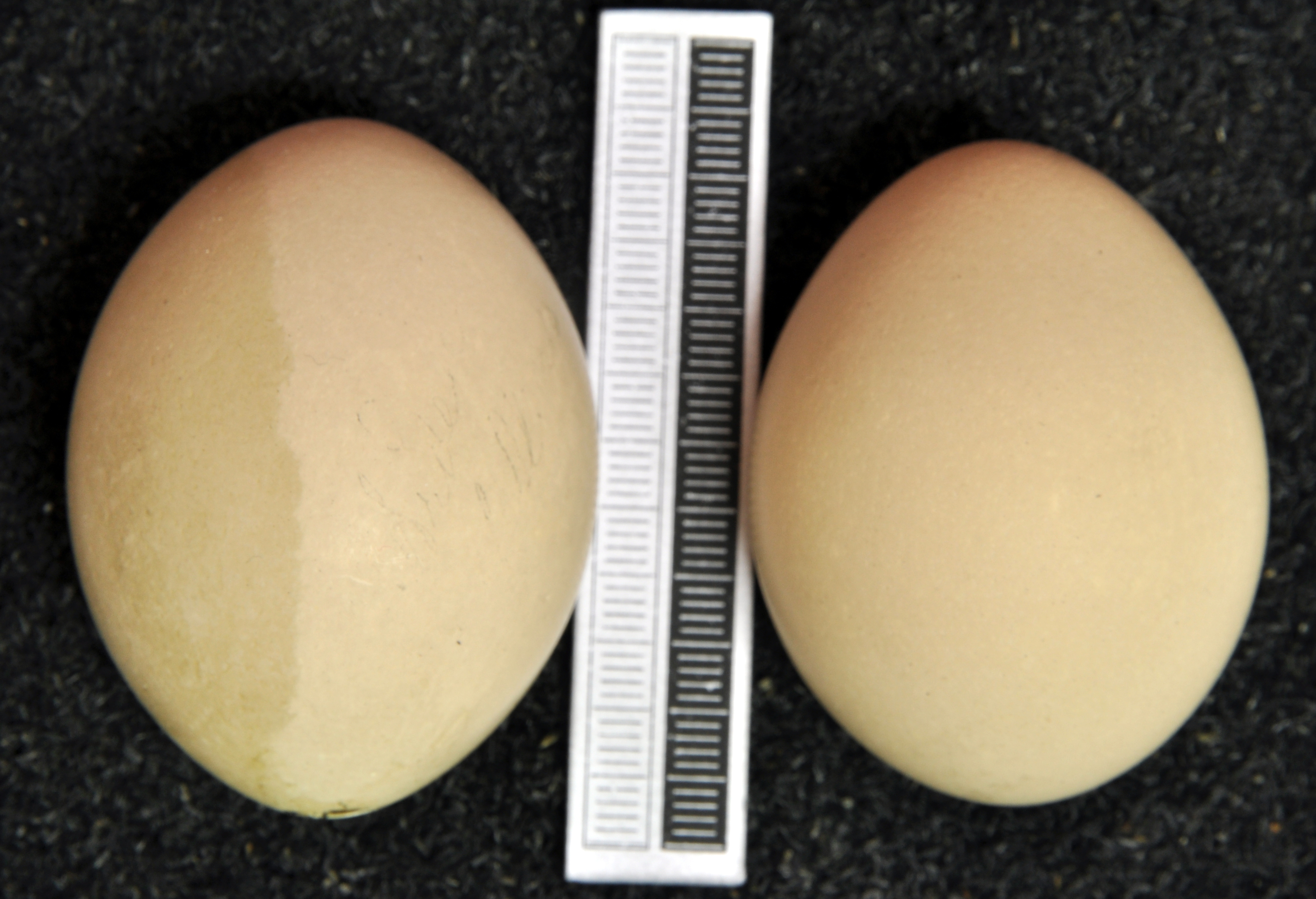 Eurasian bittern Botaurus stellaris , egg, Coll. Museum Wiesbaden